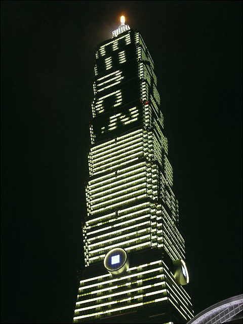 Apr/19/2005 at Taipei101